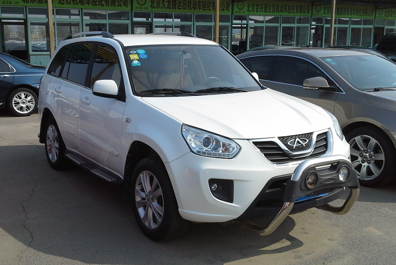 Chery Tiggo facelift II photographed in Beijing, China.